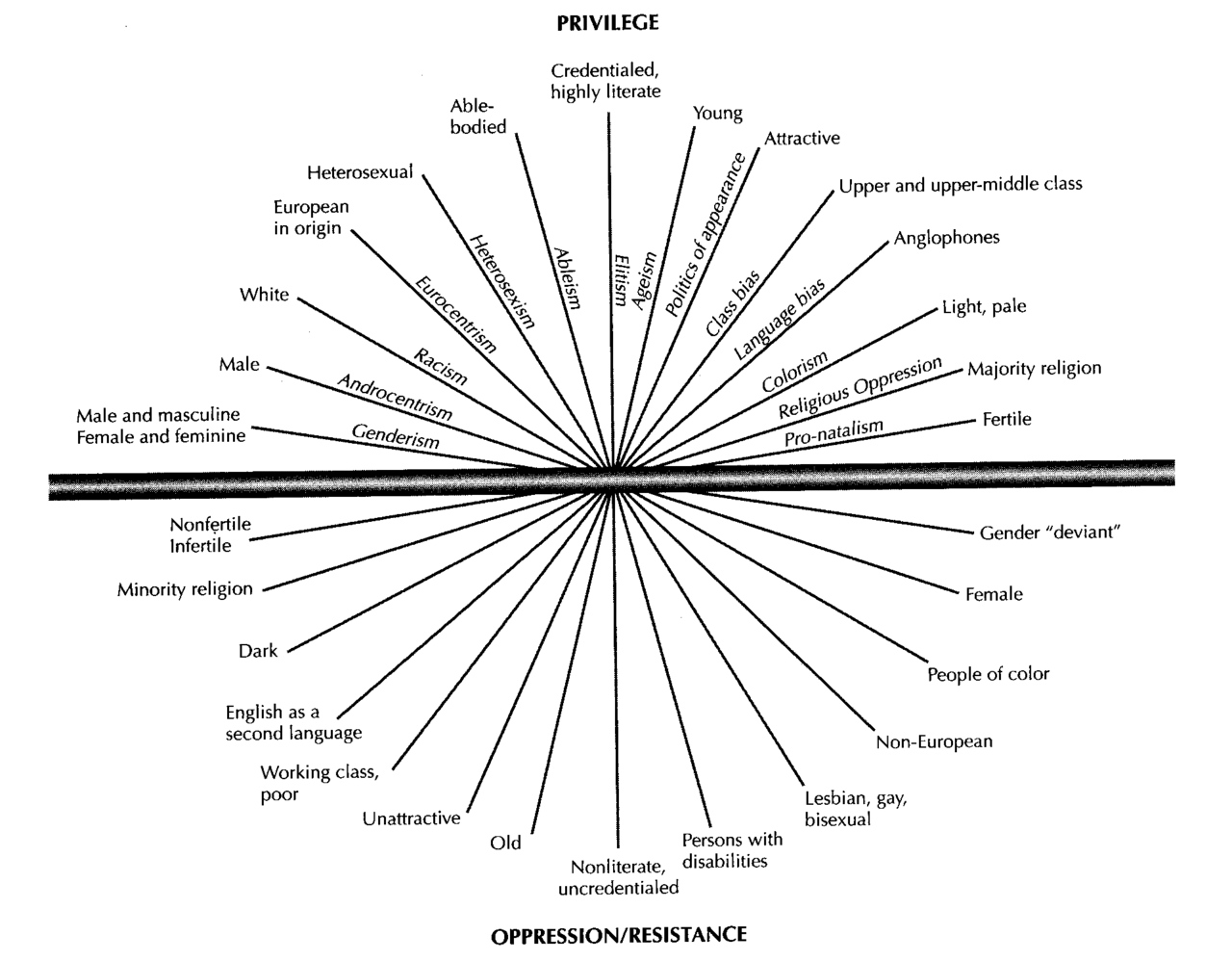 Opresiones y privilegios